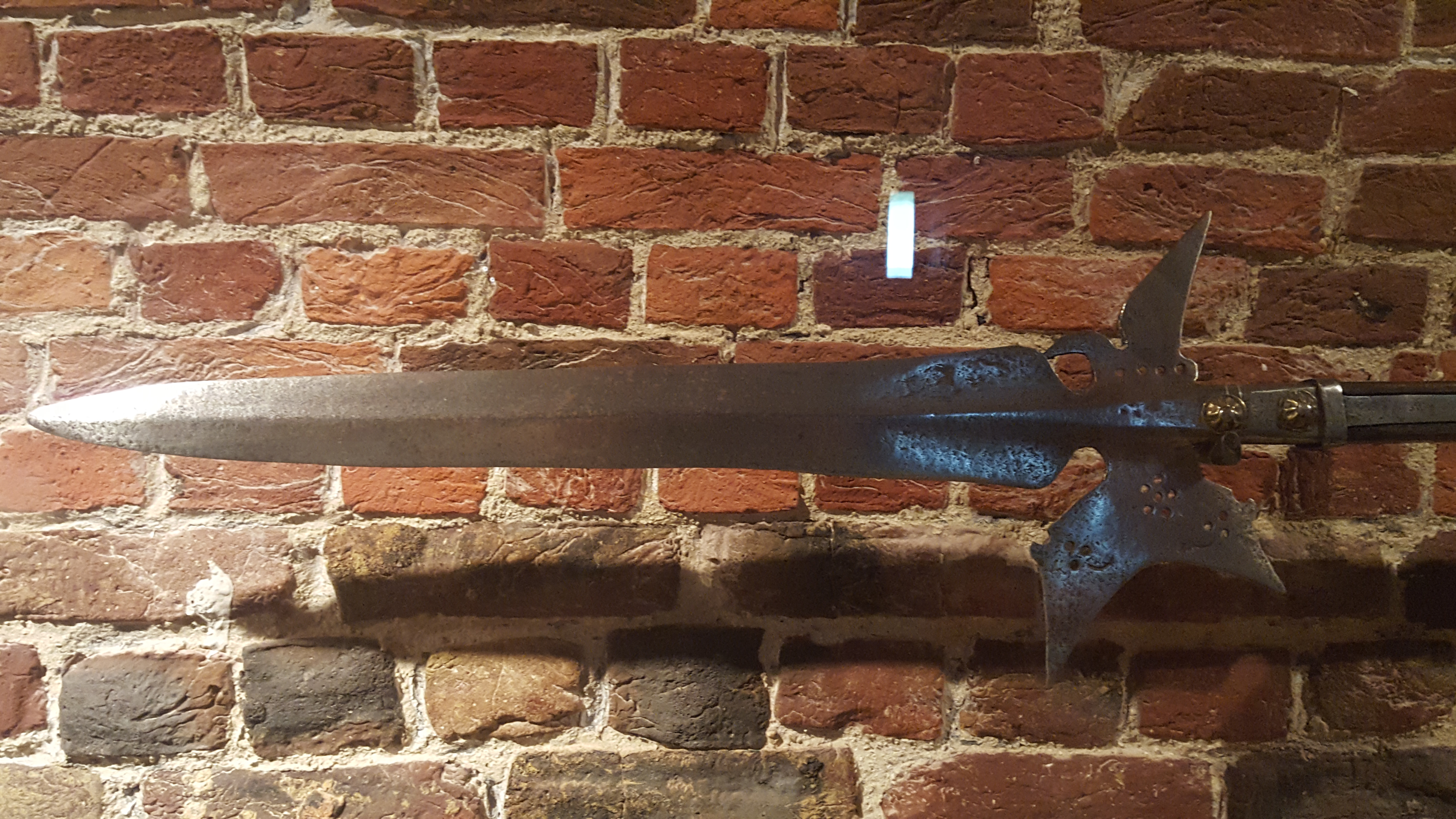 War halbard, in the Halle Gate museum, during Wiki Loves Art, Brussels, Belgium